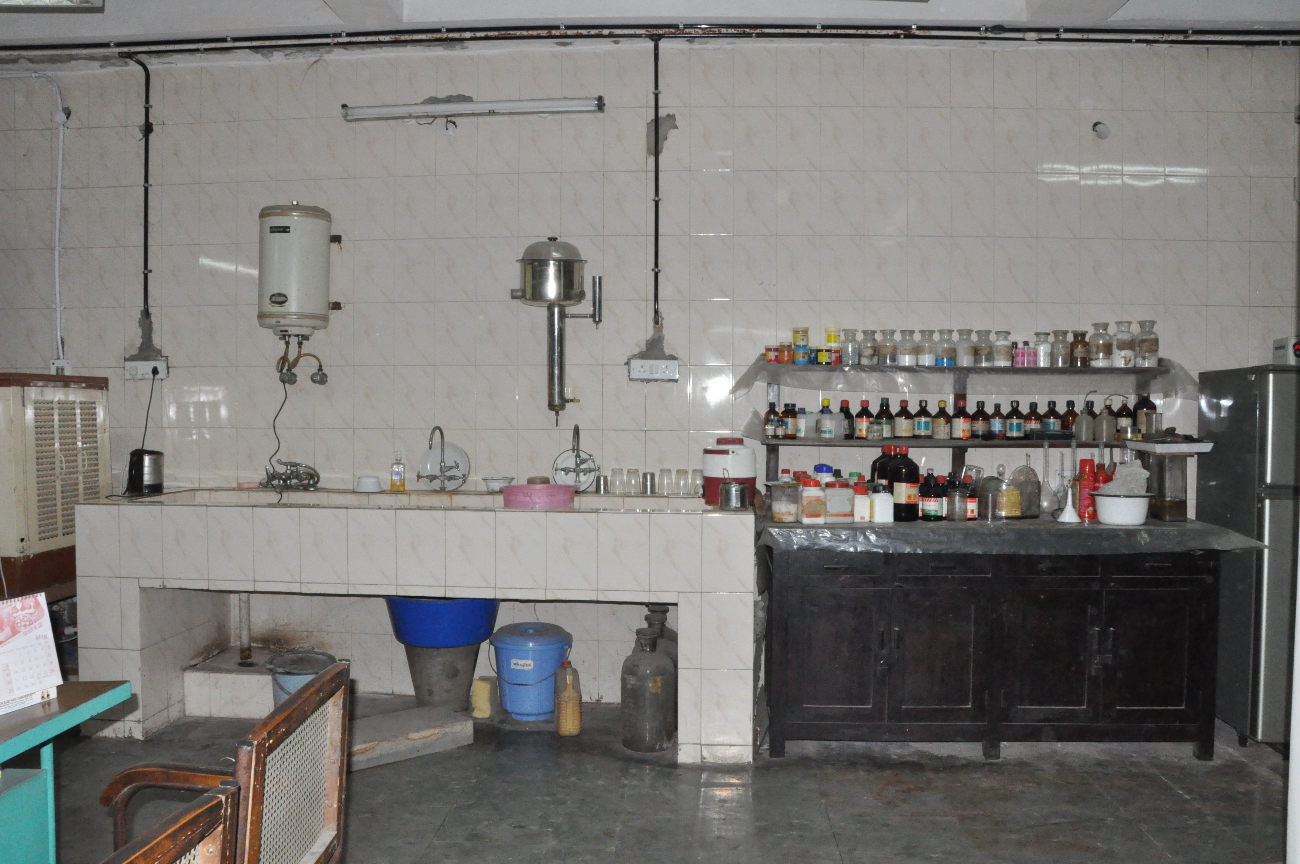 Conservation laboratory of Crafts Museum, New Delhi